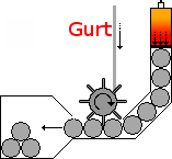 Pyrotechnic safety belt pretensioner diagram